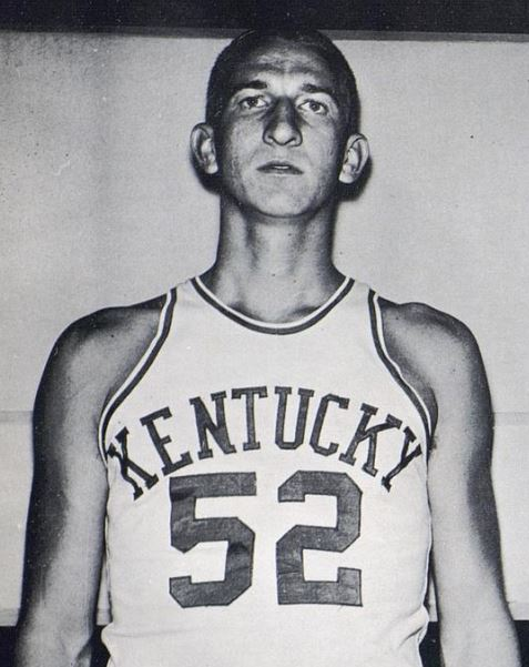 University of Kentucky basketball player Vernon Hatton from the 1958 "Kentuckian" yearbook